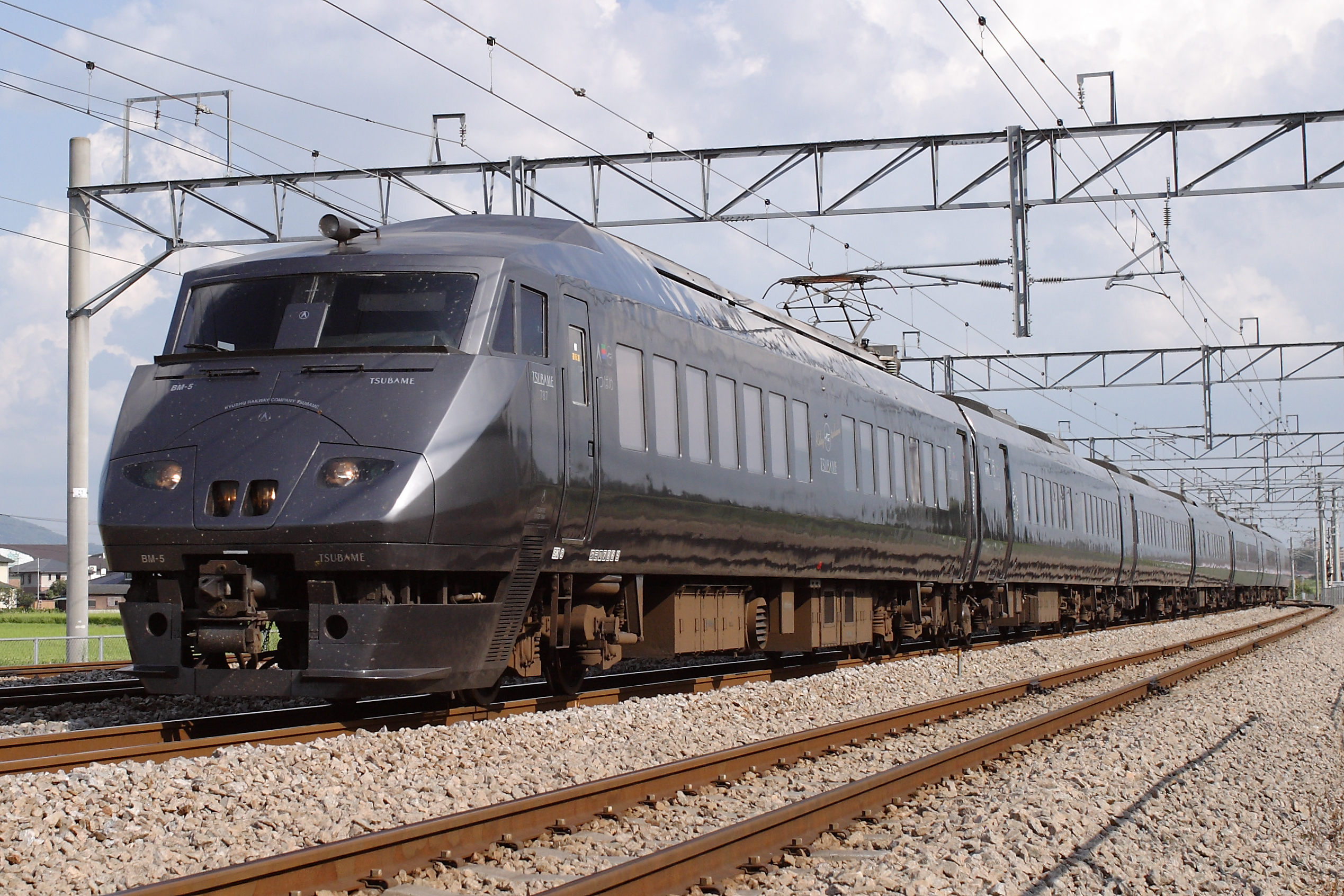 JR Kyushu 787-0 - BM5 - Kagoshima Main Line - Dazaifu